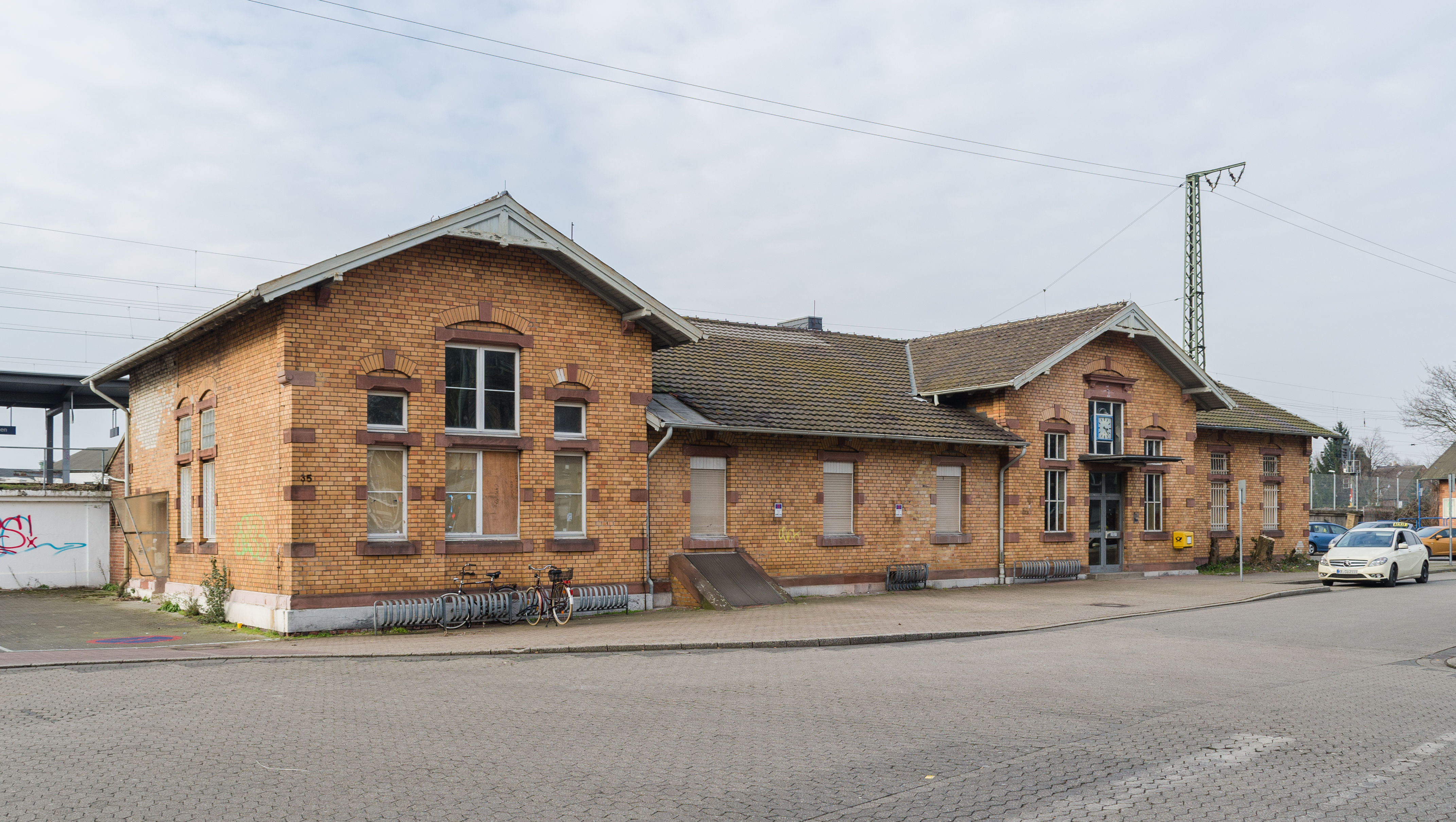 Krefeld (North Rhine-Westphalia, Germany) – district Uerdingen – train station – station building